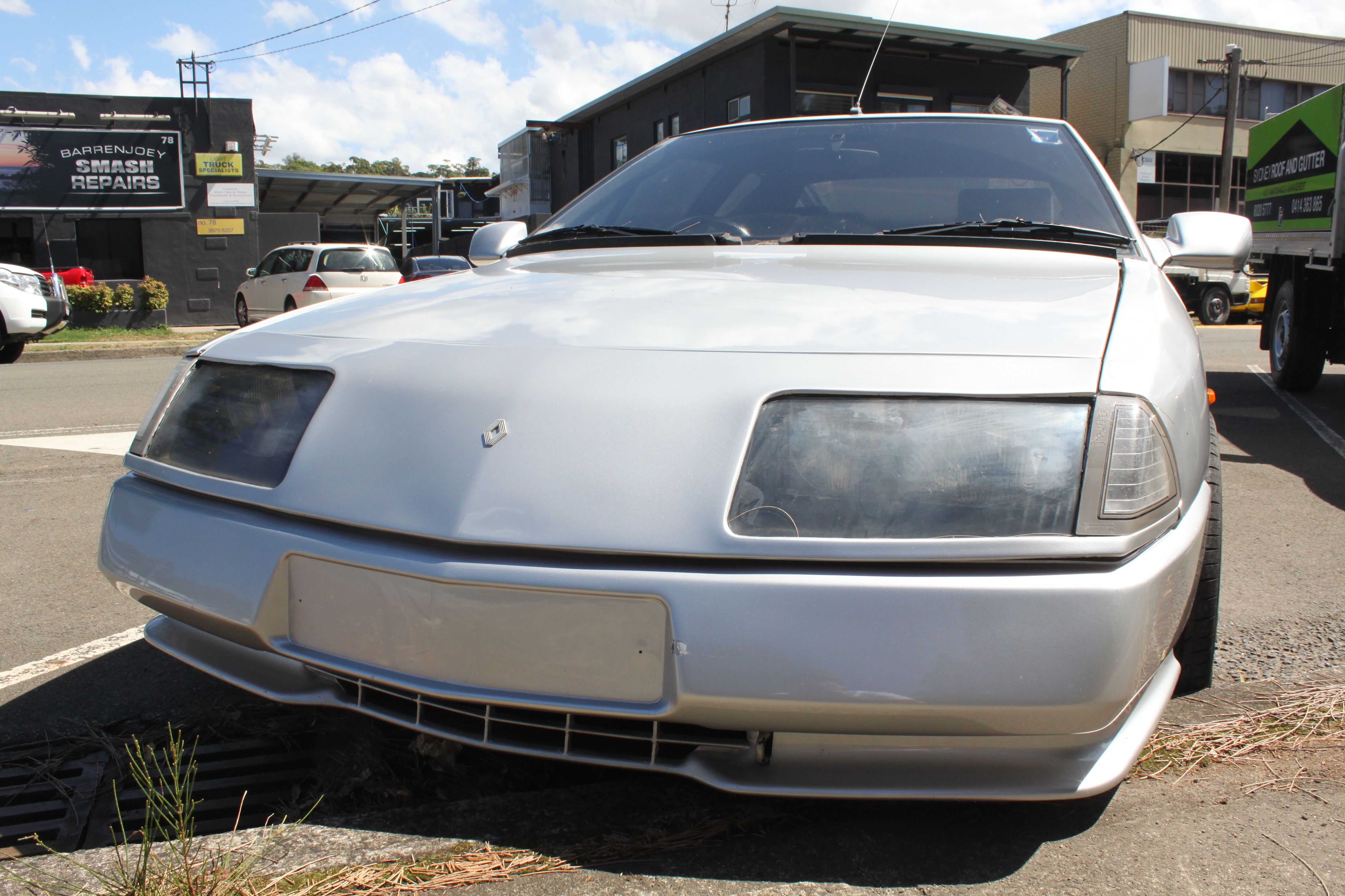 Vehicle registration enquiry results Jurisdiction United Kingdom Registration E29MTP Engine code 2450 cc Compliance date 1988-01-01 (first registered) Year of manufacture 1987